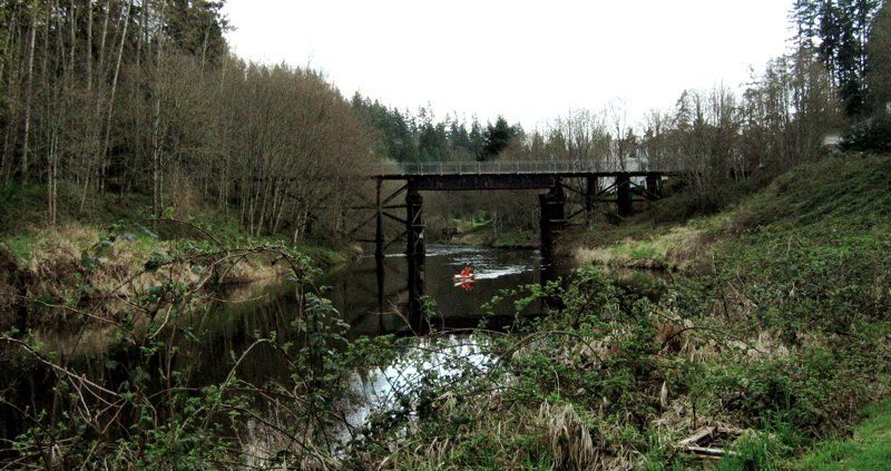 The Sammamish River in western Bothell, Washington, near the border with Kenmore, Washington, looking downstream towards Lake Washington, its terminus. Photograph by myself (Dara Korra'ti/Dawnstar Graphics, taken March of 2007); the kayaker is paddling upstream towards Bothell. At the rightmost edge of the bridge lies the intersection of the Burke-Gilman and Sammamish River Trails.